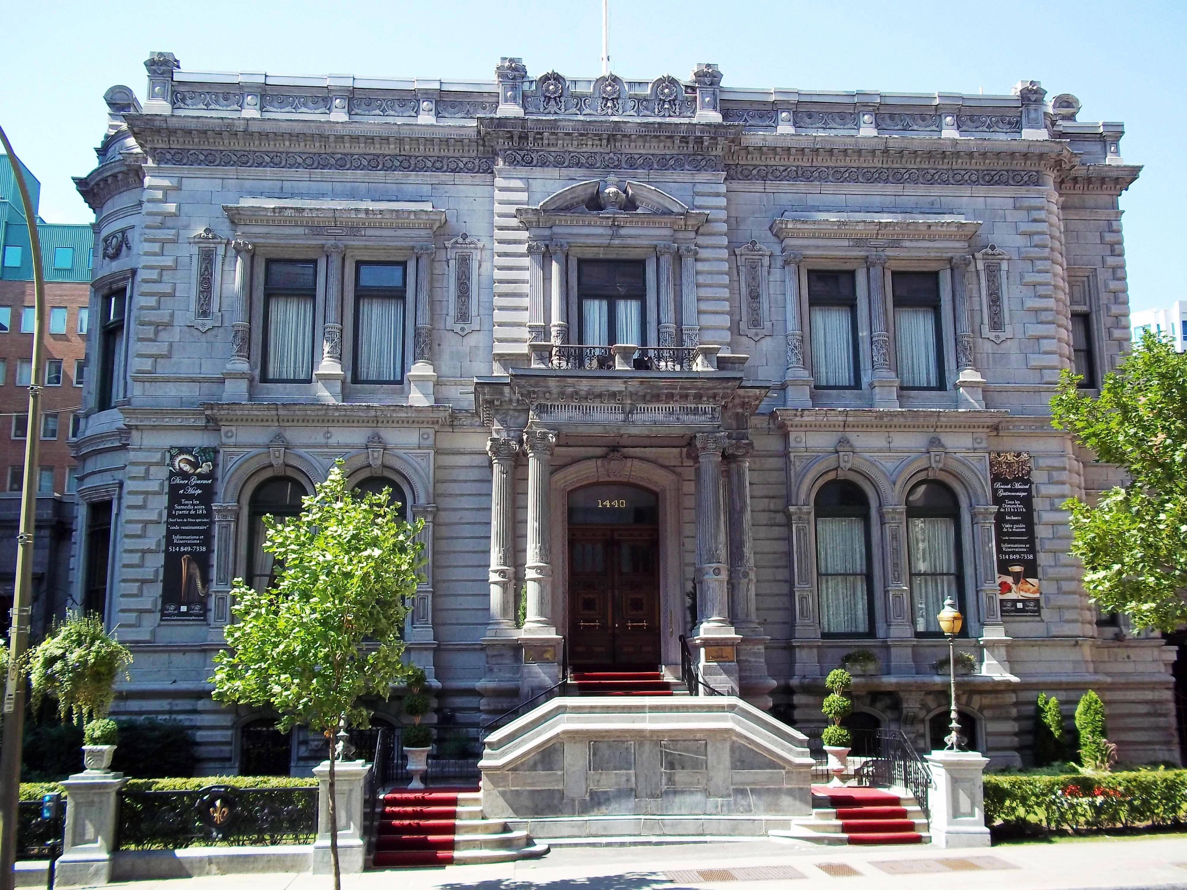 George Stephen House (1883), also known as the Mount Stephen Club Building, 1430–1440 Drummond Street, Montreal, Quebec, Canada.